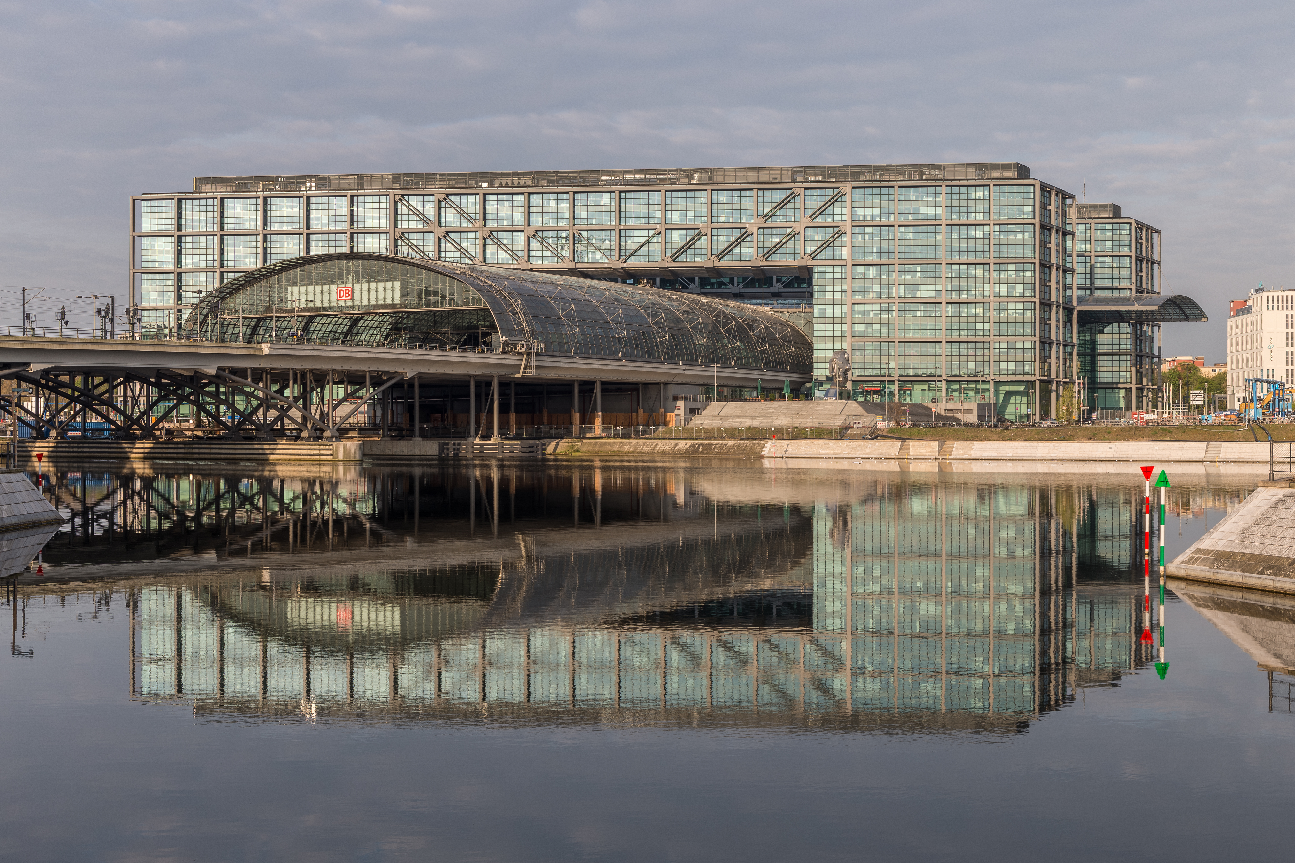 East facade of Berlin Central Station as seen at early dawn from Alexanderufer. The building is reflecting in the water of Humboldt harbour. The building was designed by Meinhard von Gerkan. HDR made of three exposures (f/11, ISO 100, exposure times 1/30, 1/60, 1/125).